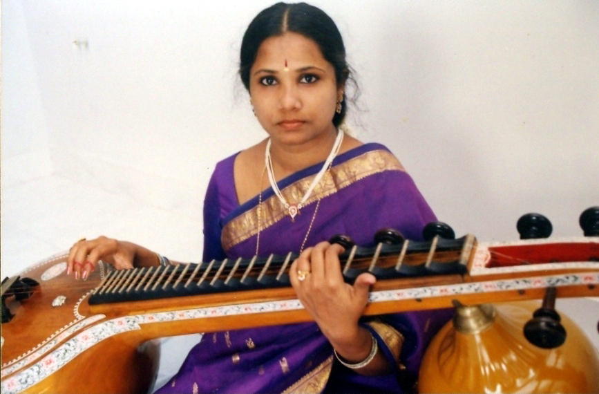 Srivani